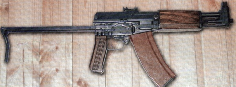 AG-043 Soviet compact fully automatic assault rifle chambered for the 5.45 x 39 mm round, developed in 1975